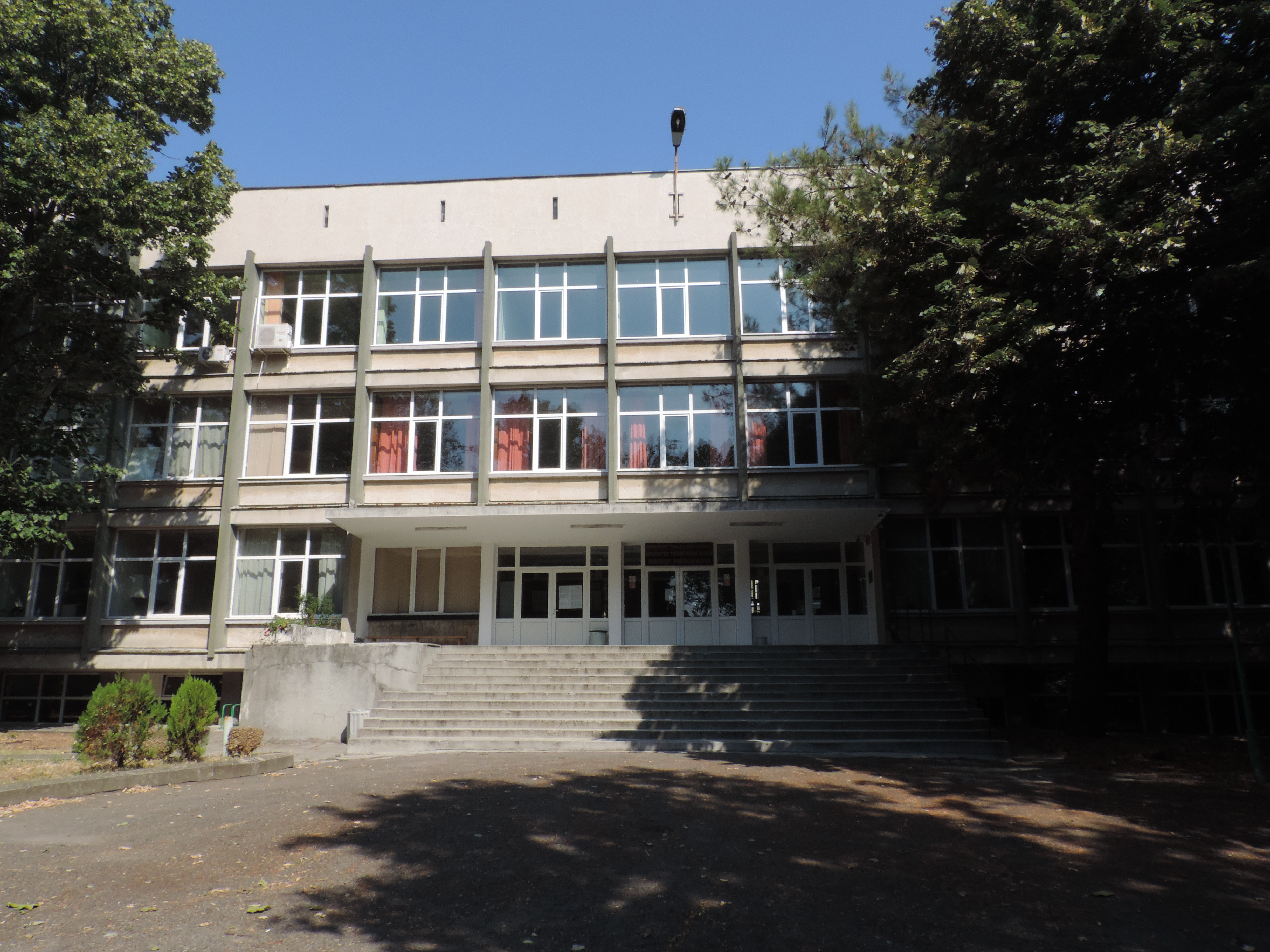 "Professor Asen Zlatarov" University, Burgas. Bulgaria